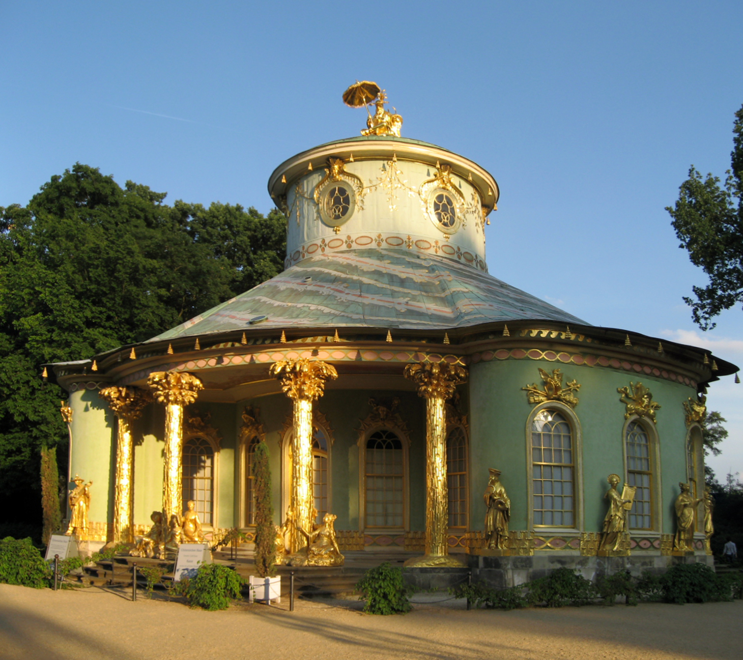 So-called "Chinese House" in the Park of Sanssouci, which served as a teahouse.